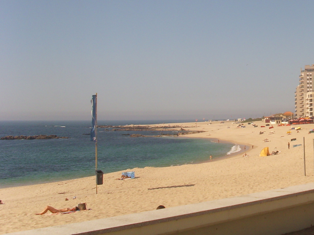 Lagoa Beach is a cove located in the highrise area of Póvoa de Varzim